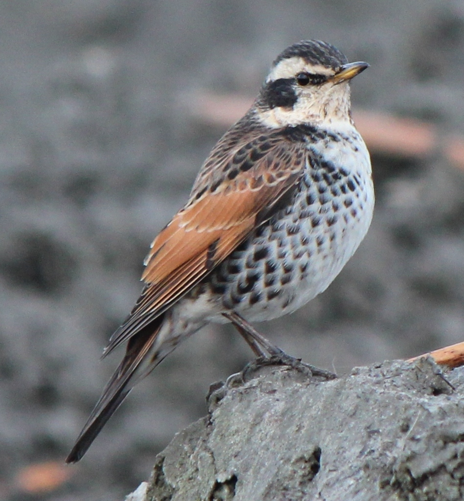 Dusky Thrush Turdus naumanni eunomus in Japan